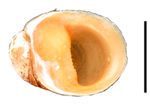 Photo of an apertural view of a shell of Neripteron violaceum. Scale bar is 10 mm.